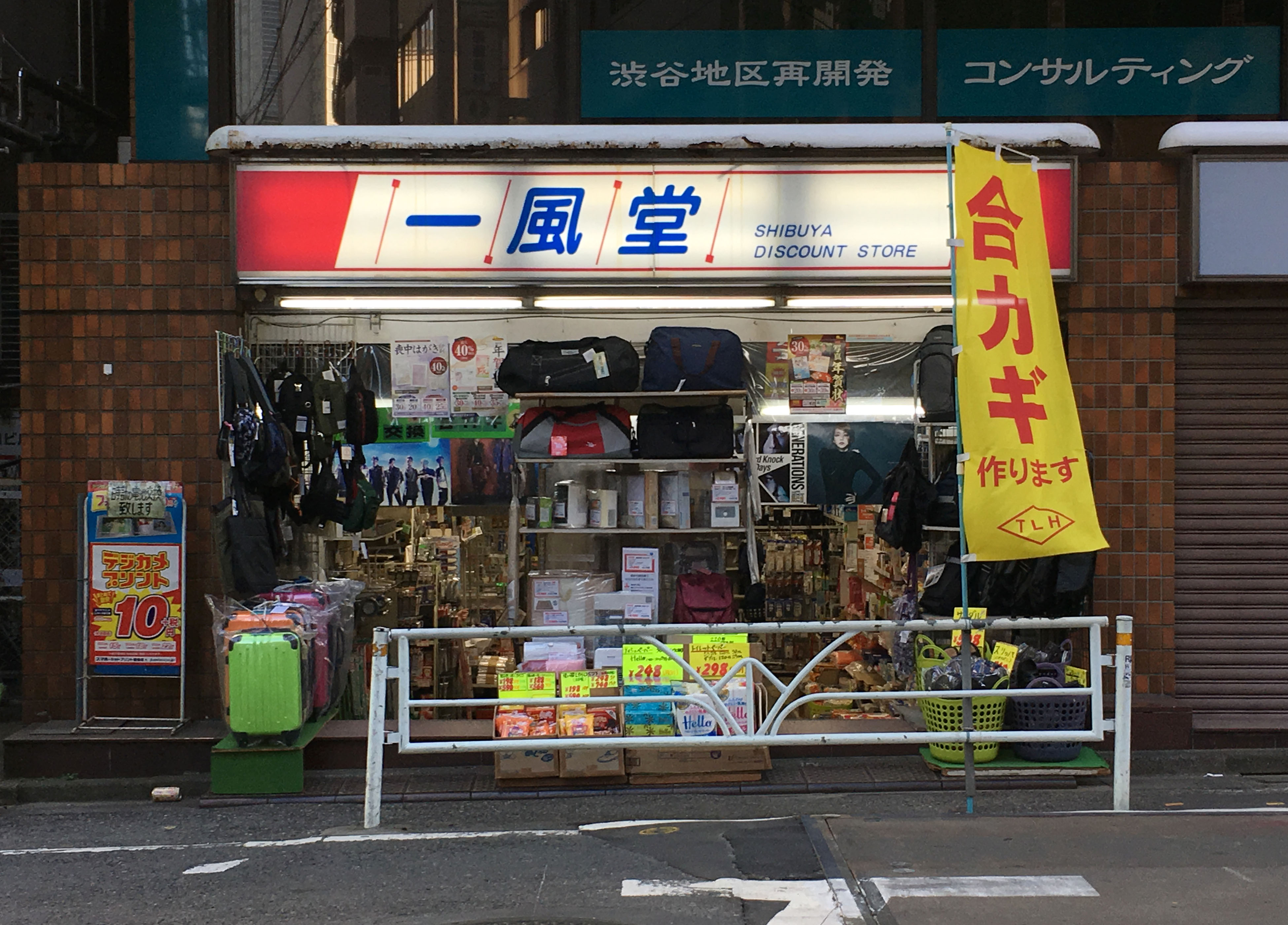 Ippudo (Discount store in Tokyo, Japan)